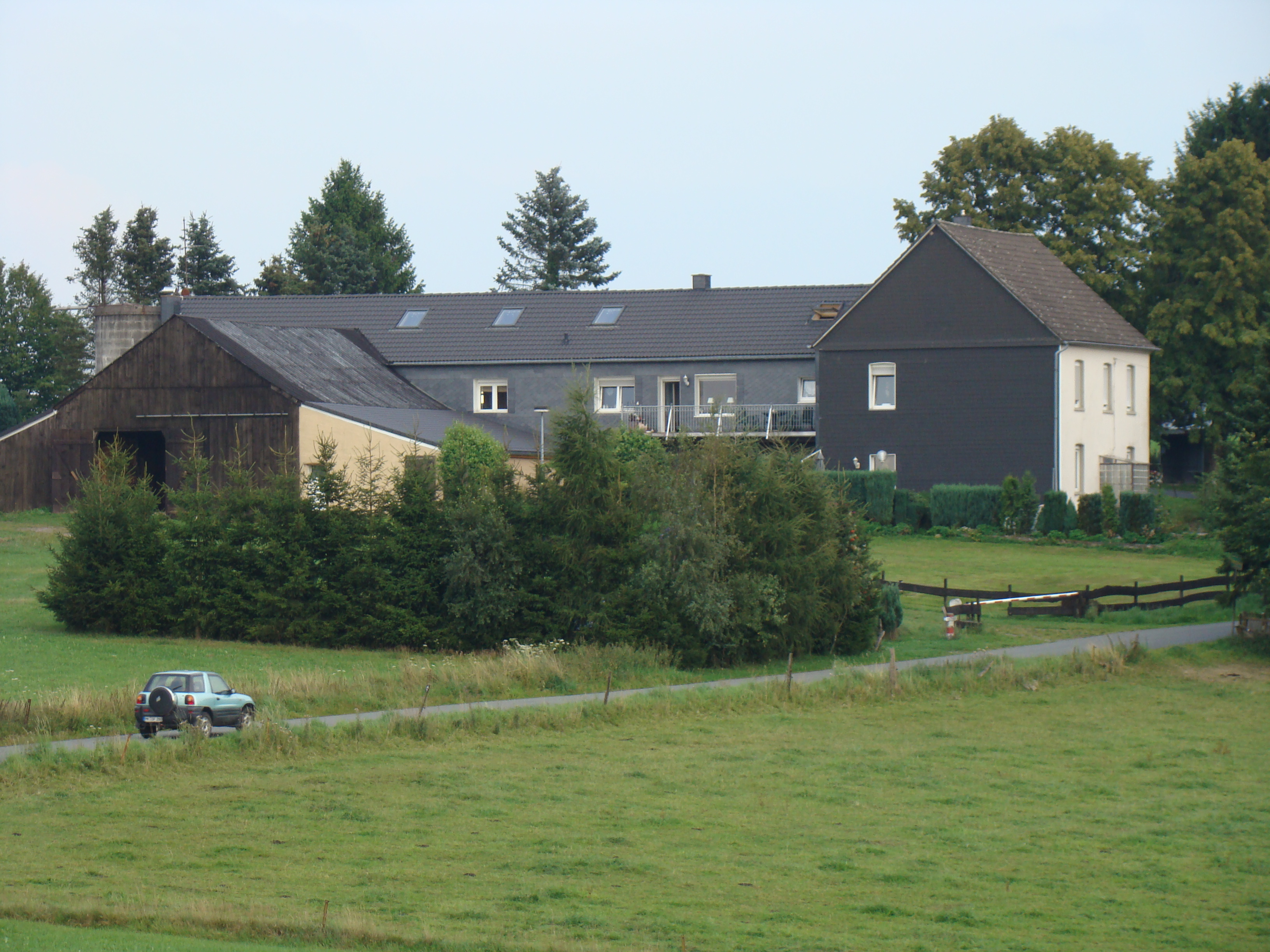 A single homestead belonging to Hohenbüchen